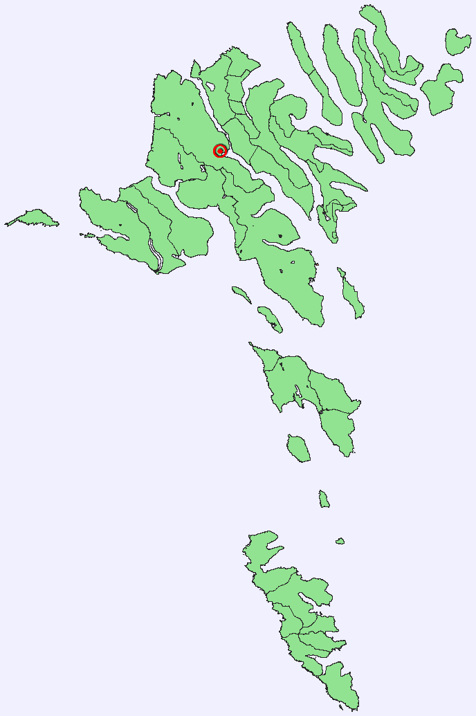 Position of Streymnes in the Faroe Islands Graphics: Arne List